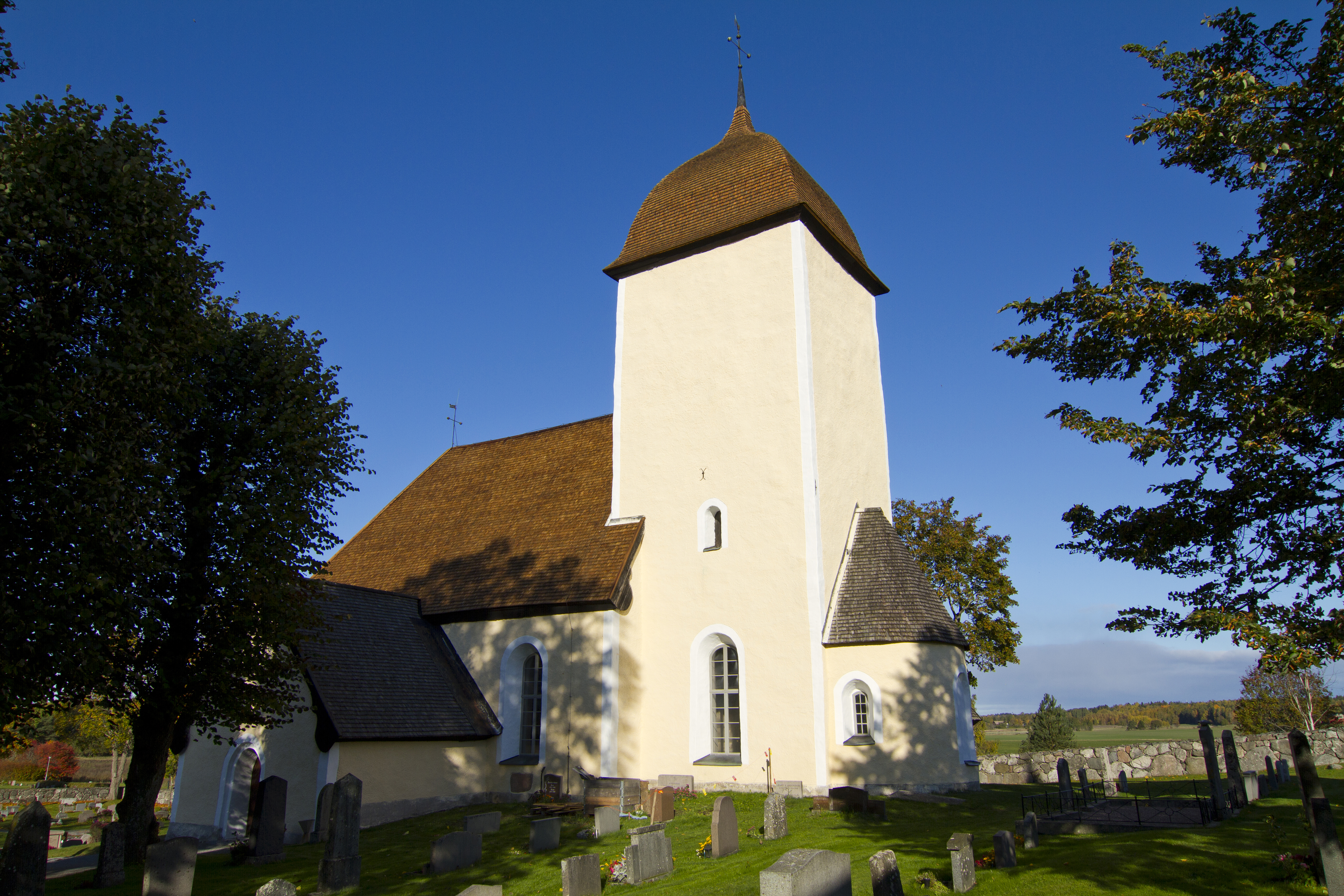 Husby Ärlinghundra church outside Märsta in Sigtuna Municipality north of Stockholm, Sweden